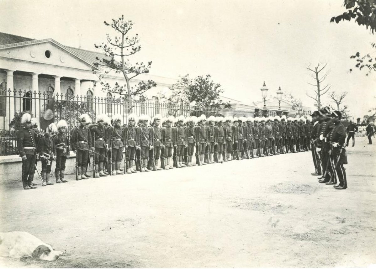 A contingent of the Imperial Guard during an inspection in 1872